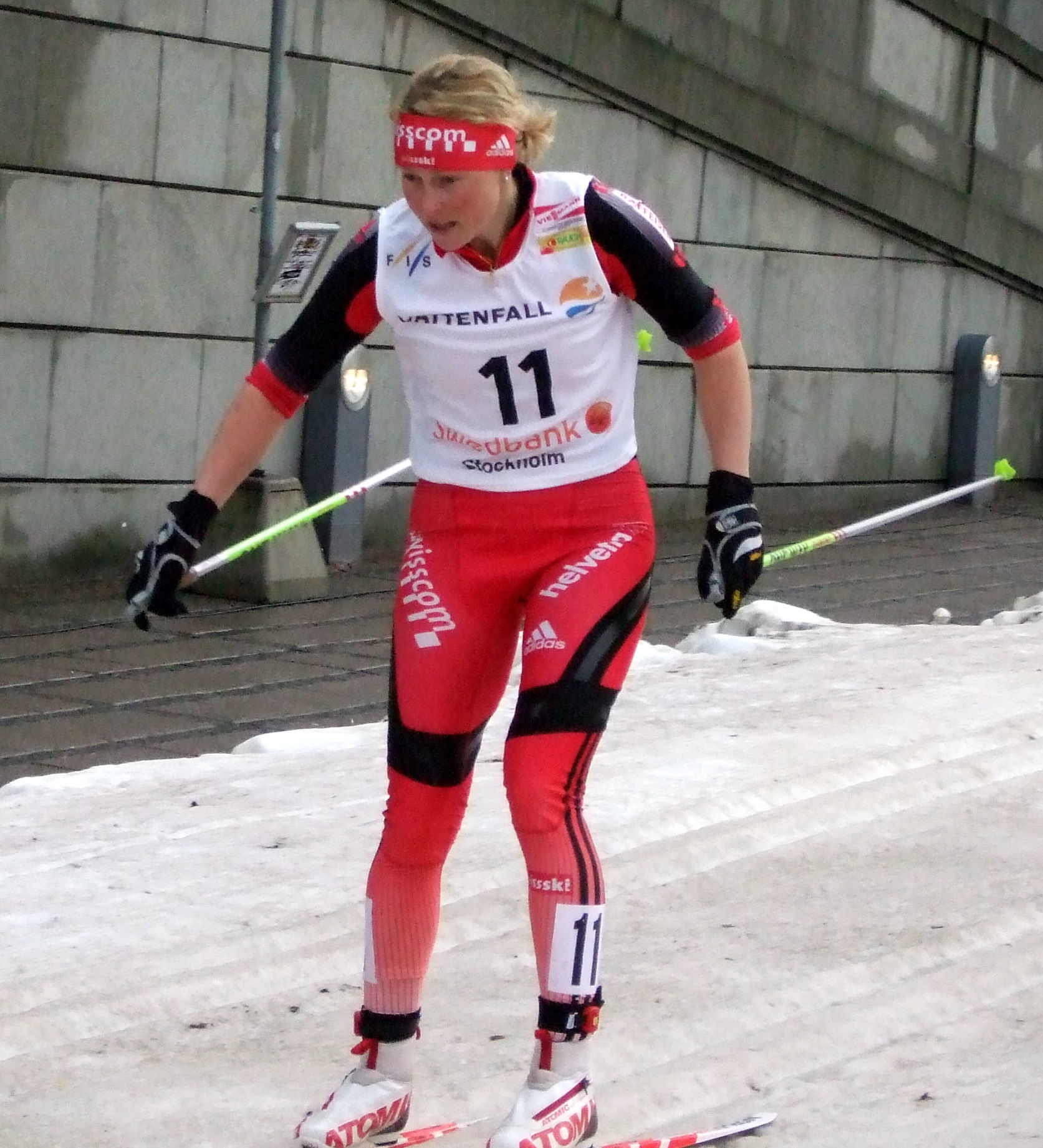 Seraina Mischol at the Royal Castle World Cup sprint in Stockholm, Sweden